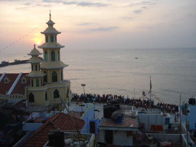 church of st.Roach